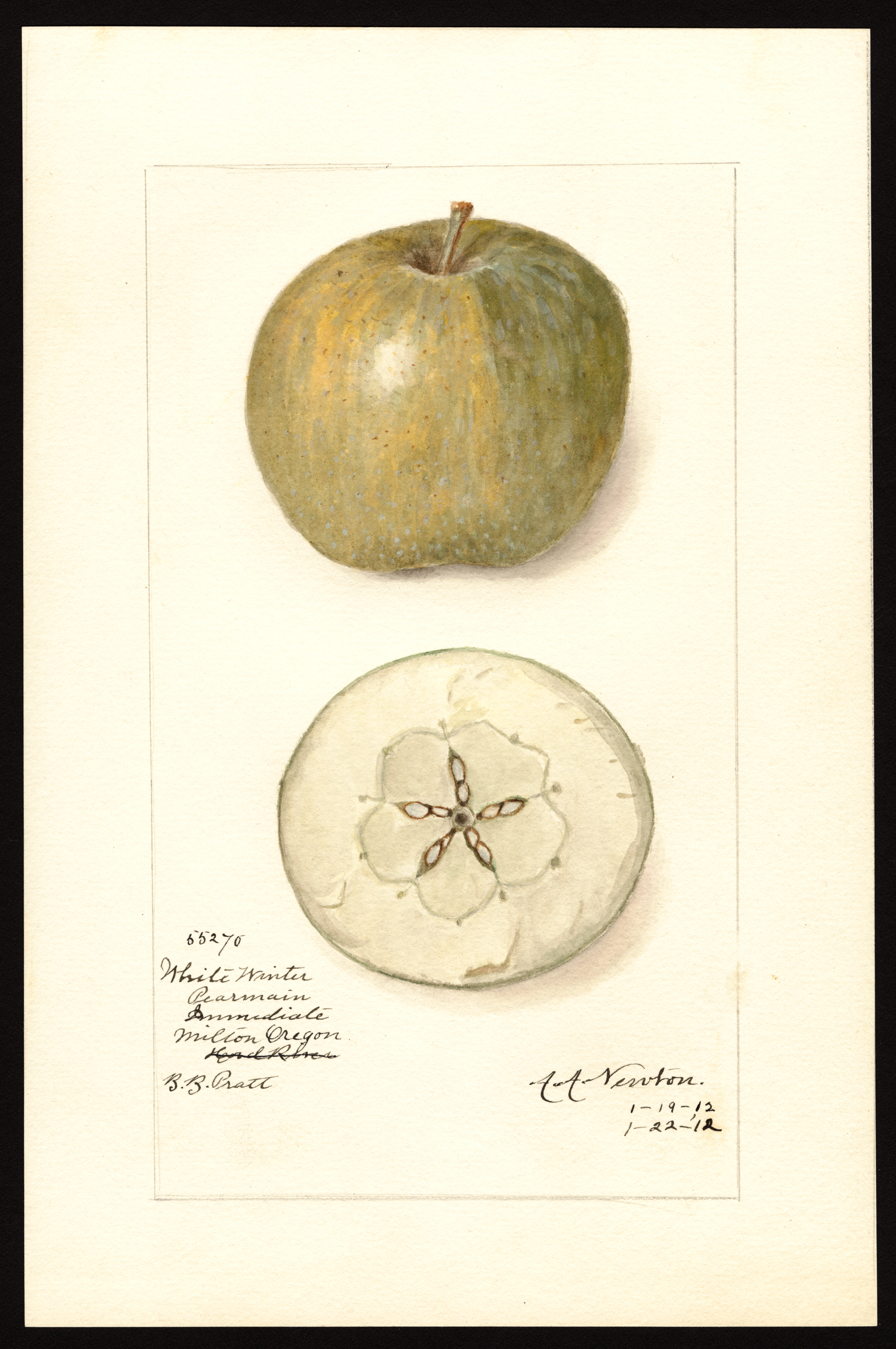 Image of the White Winter Pearmain variety of apples (scientific name: Malus domestica), with this specimen originating in Milton-Freewater, Umatilla County, Oregon, United States. Source: U.S. Department of Agriculture Pomological Watercolor Collection. Rare and Special Collections, National Agricultural Library, Beltsville, MD 20705.